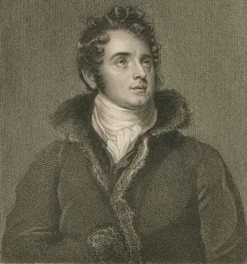 Portrait of the actor Alexander Rae